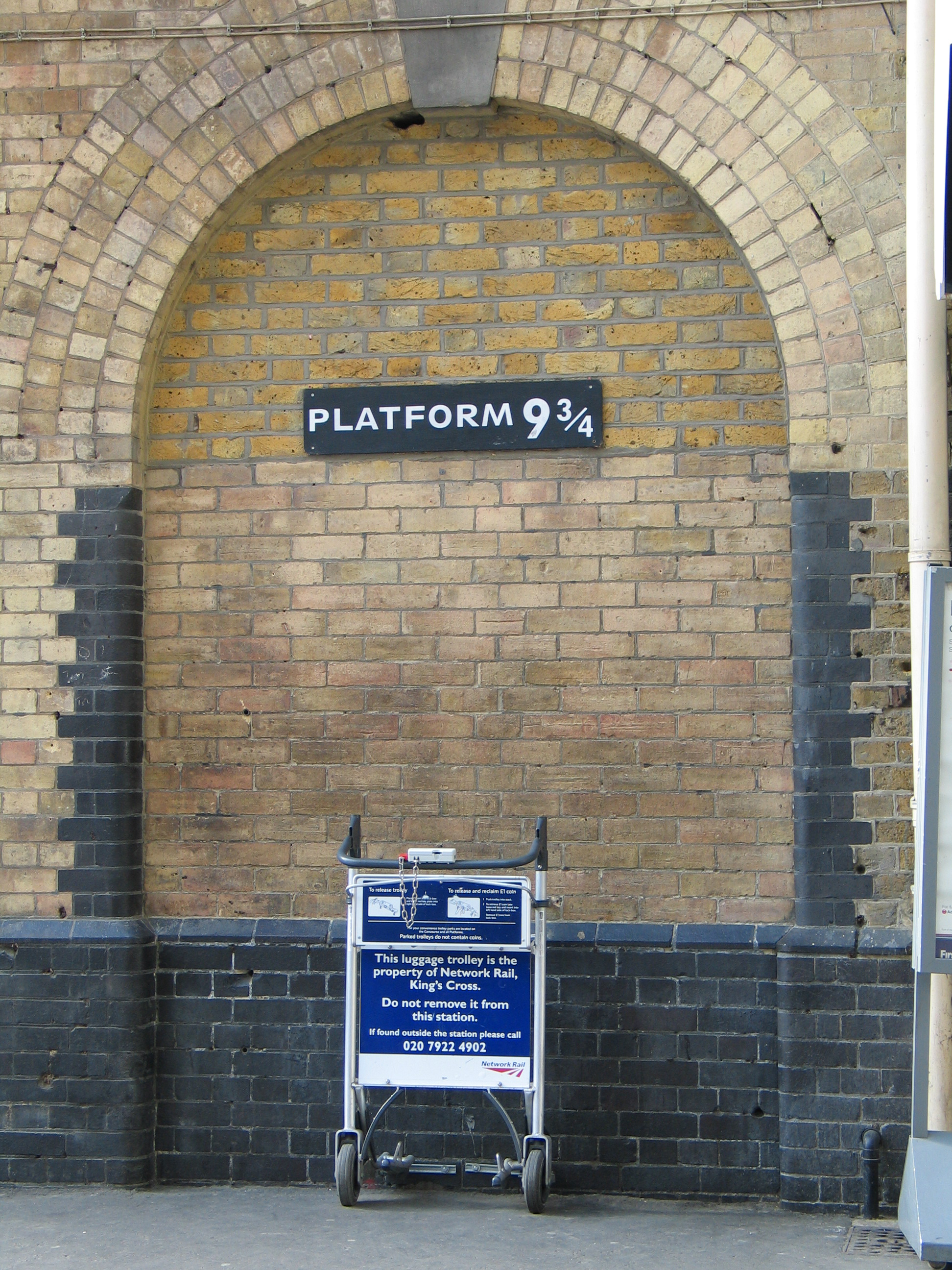 "Platform 9 3/4" at King's Cross station in London